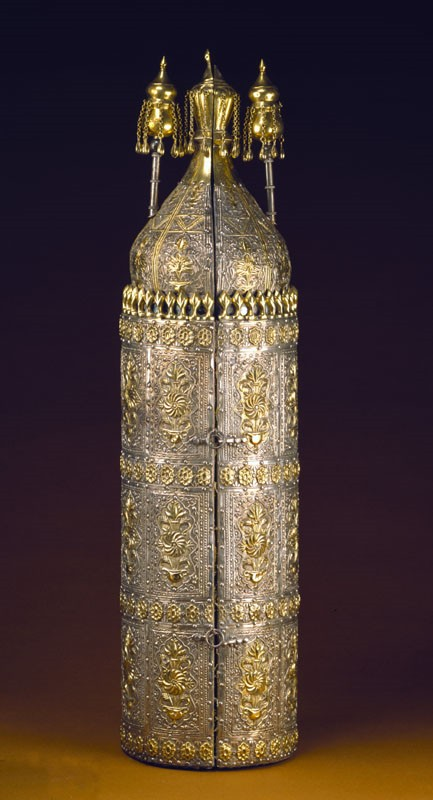 Tik and Sefer Torah (Torah case and scroll), Ottoman Empire, 1860. This Torah case belonged to Abraham de Camondo, leader of Constantinople's Jewish community. Musée d'Art et d'Histoire du Judaïsme